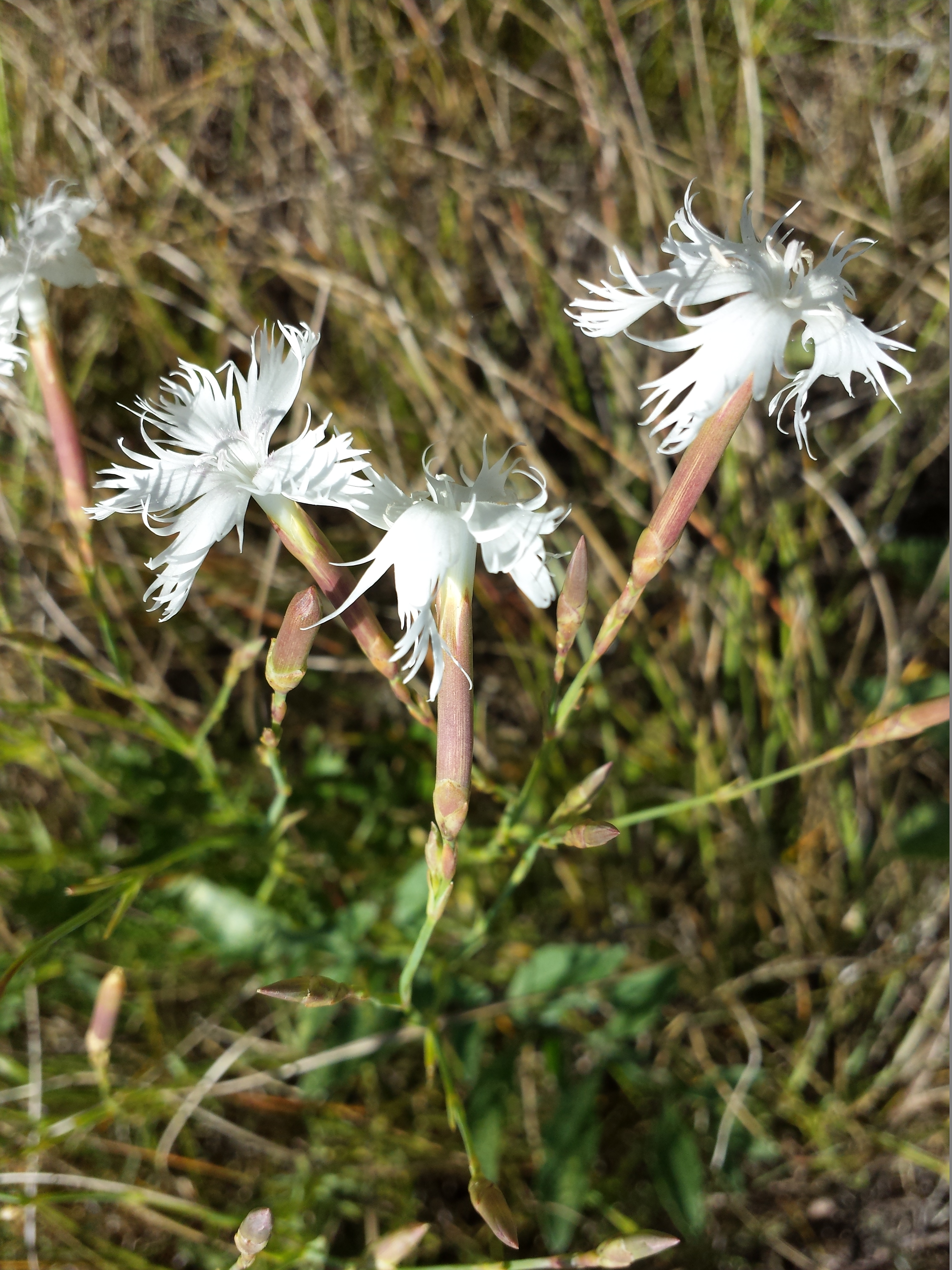 Flowers Taxon: Dianthus serotinus (sensu Fischer et al. EfÖLS 2008) Location: nature reserve Sandberge Oberweiden, district Gänserndorf, Lower Austria - ca. 160 m a.s.l. Habitat: sand steppe